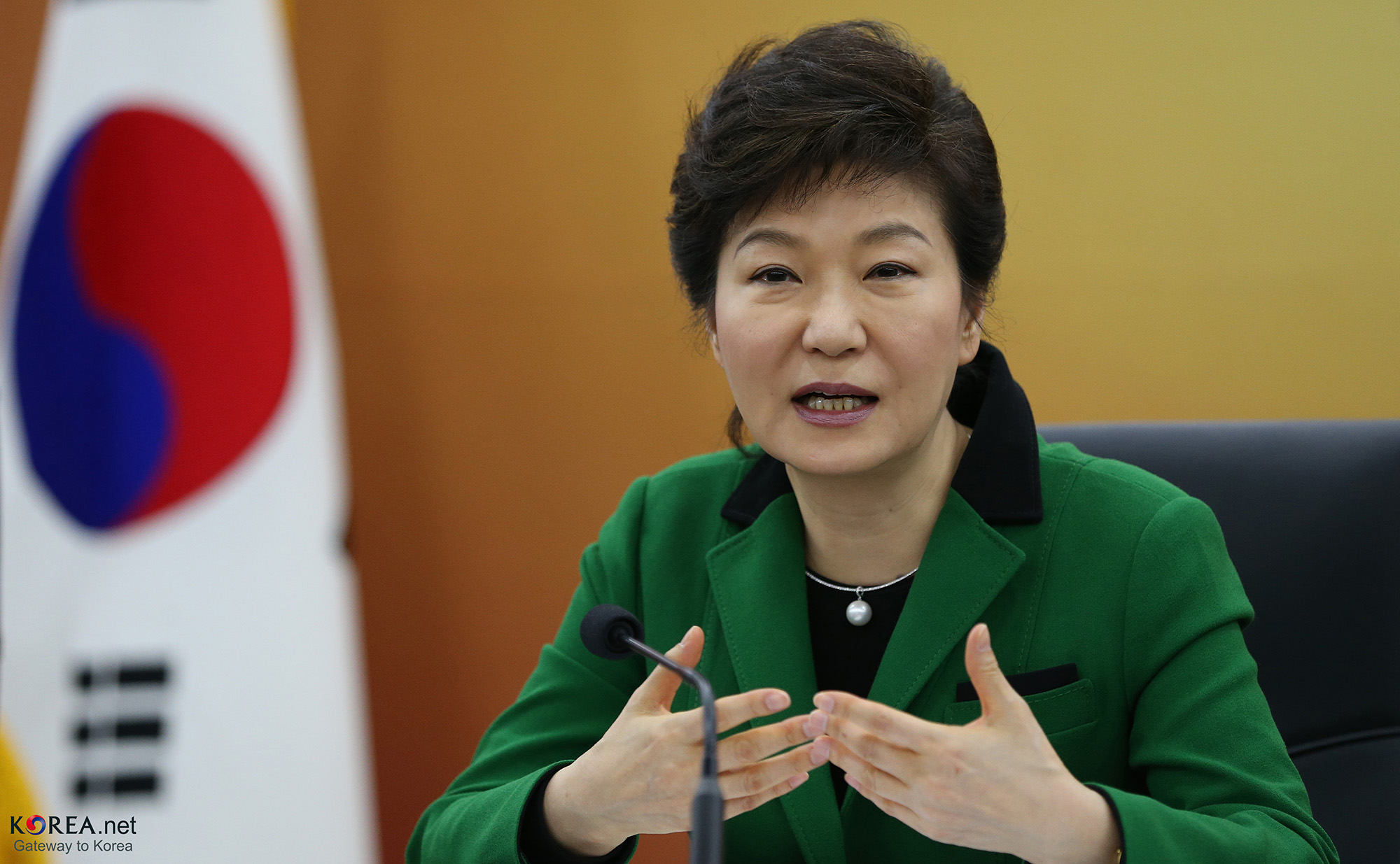 President Park Geun-hye visits the Sejong Government Complex. President Park Geun-hye delivers the keynote speech during an economic policy meeting on December 27 at the Sejong Government Complex.